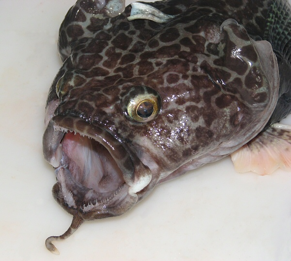 head of turquoise plunderfish Pogonophryne tronio Shandikov, Eakin et Usachev, 2013